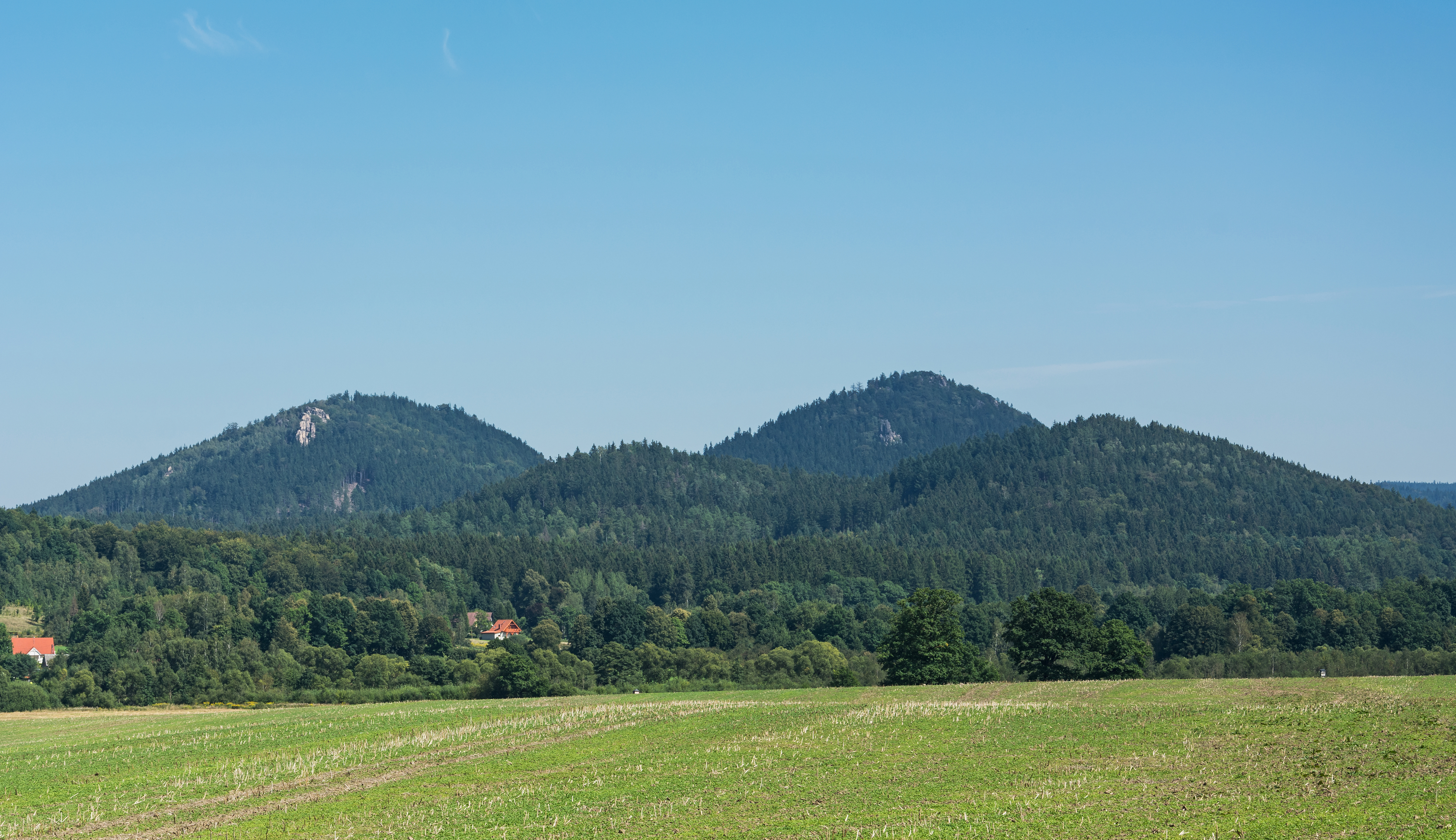 Sokole Mountans, Rudawy Janowickie, Sudetes